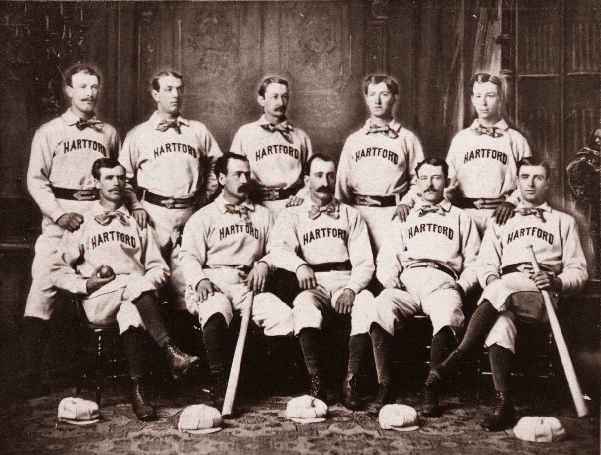 1875 Prescott & White CDV Hartford Dark Blues